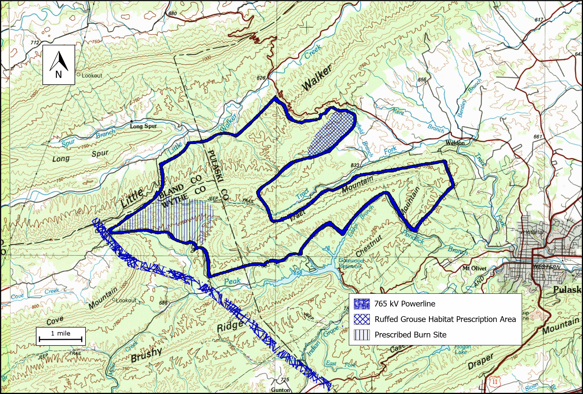 Boundary of the Little Walker Mountan wildland in the Jefferson National Forest as identified by the Wilderness Society